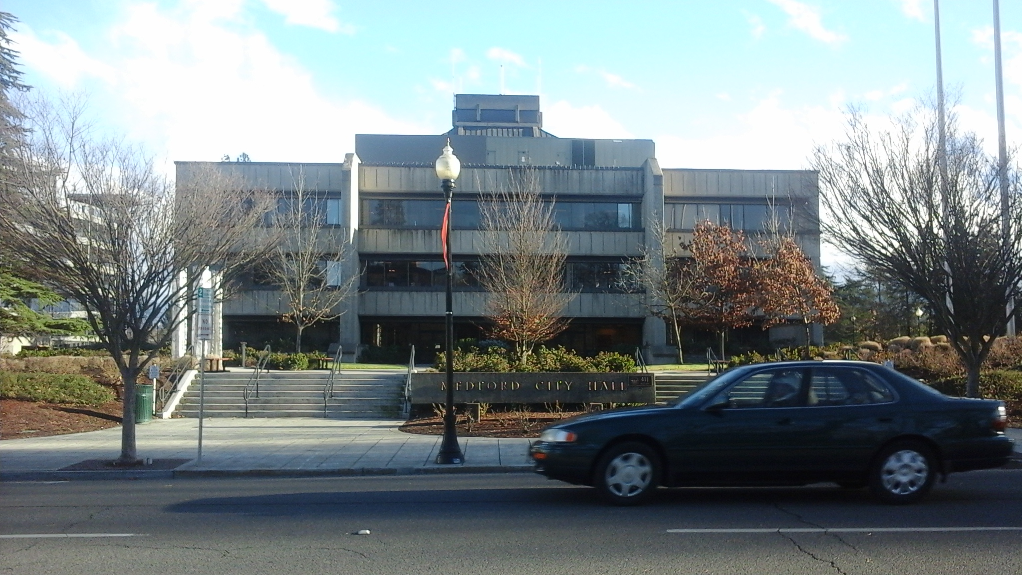 Medford, Oregon City Hall